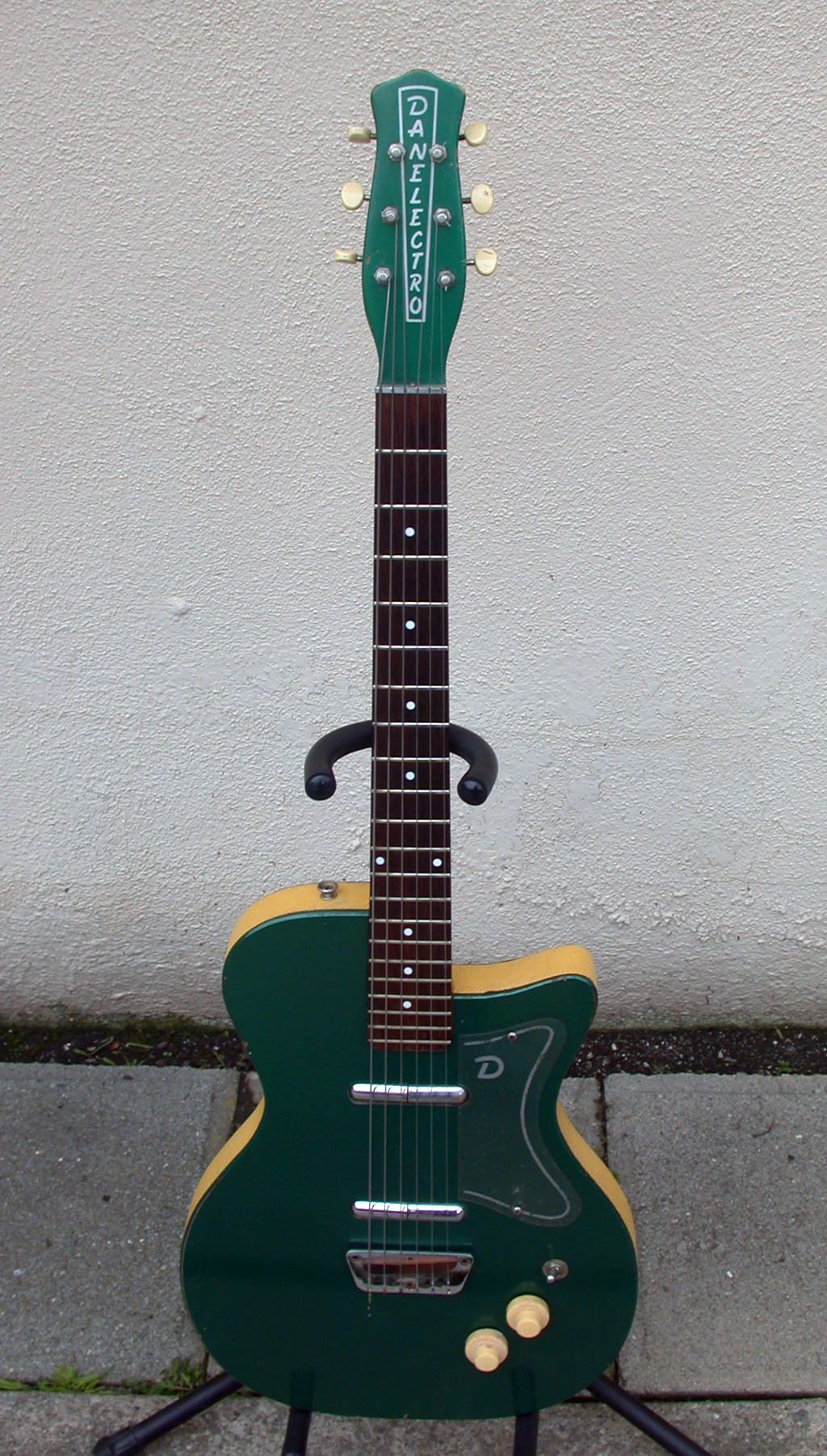 Original 1956 Jade Green Danelectro U2